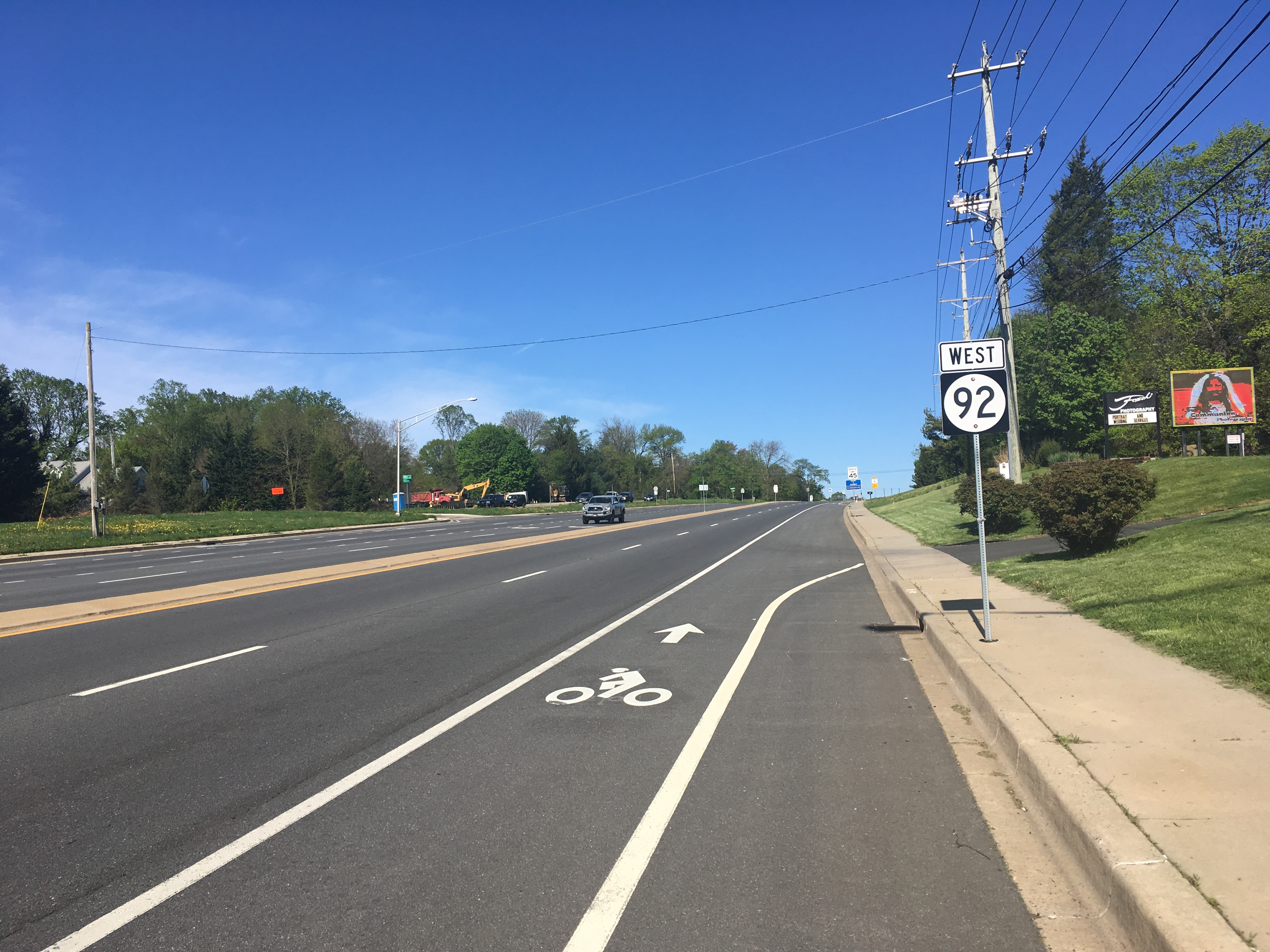 Westbound Delaware Route 92 (Naamans Road) past the intersection with Delaware Route 261 (Foulk Road) north of Wilmington, Delaware